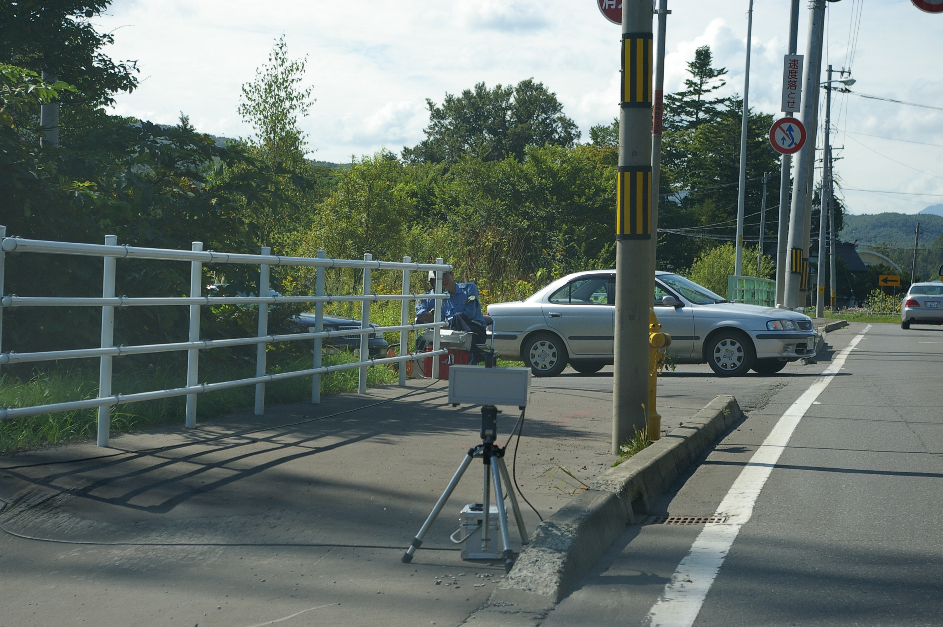 The actual condition of the Japanese police which hides also cowardly and performs traffic regulations.